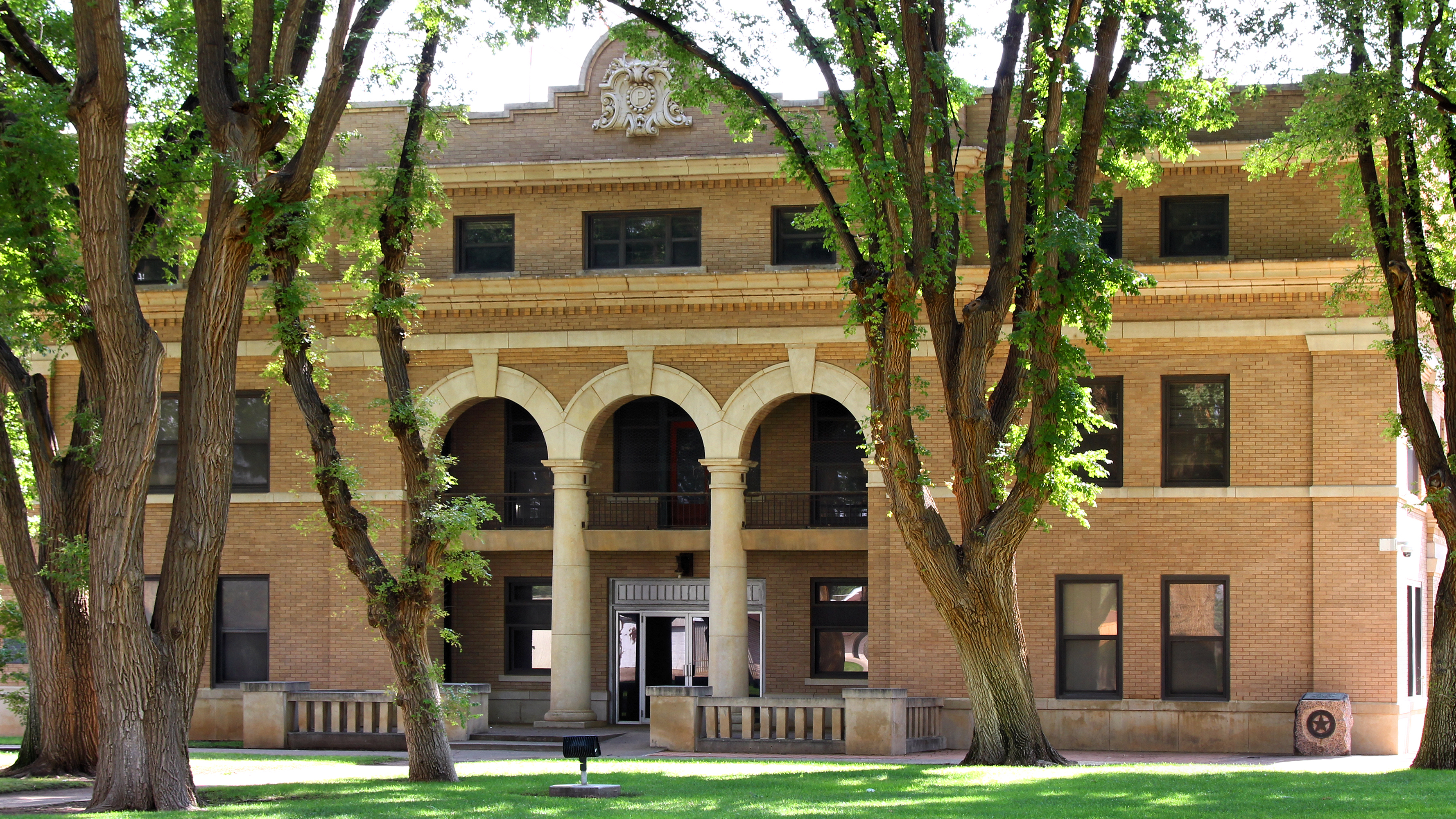 The Parmer County Courthouse in Farwell, Texas, United States was built in 1916. It was designated a Recorded Texas Historic Landmark in 1962 and listed on the National Register of Historic Paces on March 6, 2019.